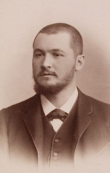 Official portrait of Oscar Baumann (1864-1899), as Consul in Zanzibar City.